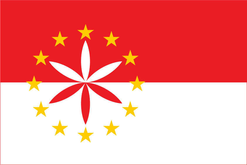 Flag of the proposed Euroregion Arpitania / Arpitan flag